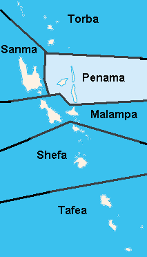 Province of Penama (Vanuatu)